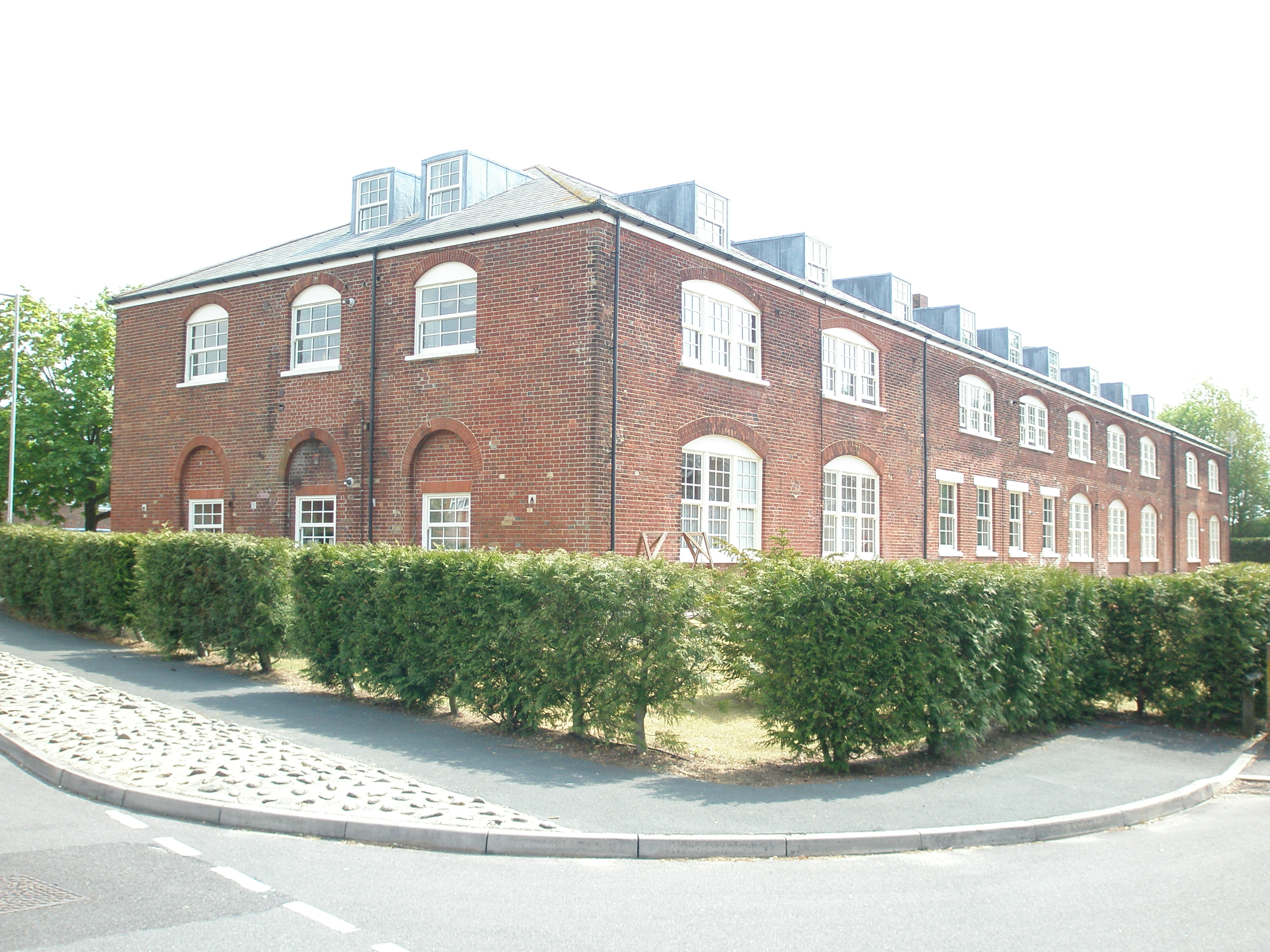 The old stable block at Christchurch Barracks, Dorset.